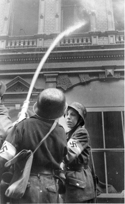 Hitler Youth firefighters in action, Düsseldorf, Germany, 25 Aug 1943